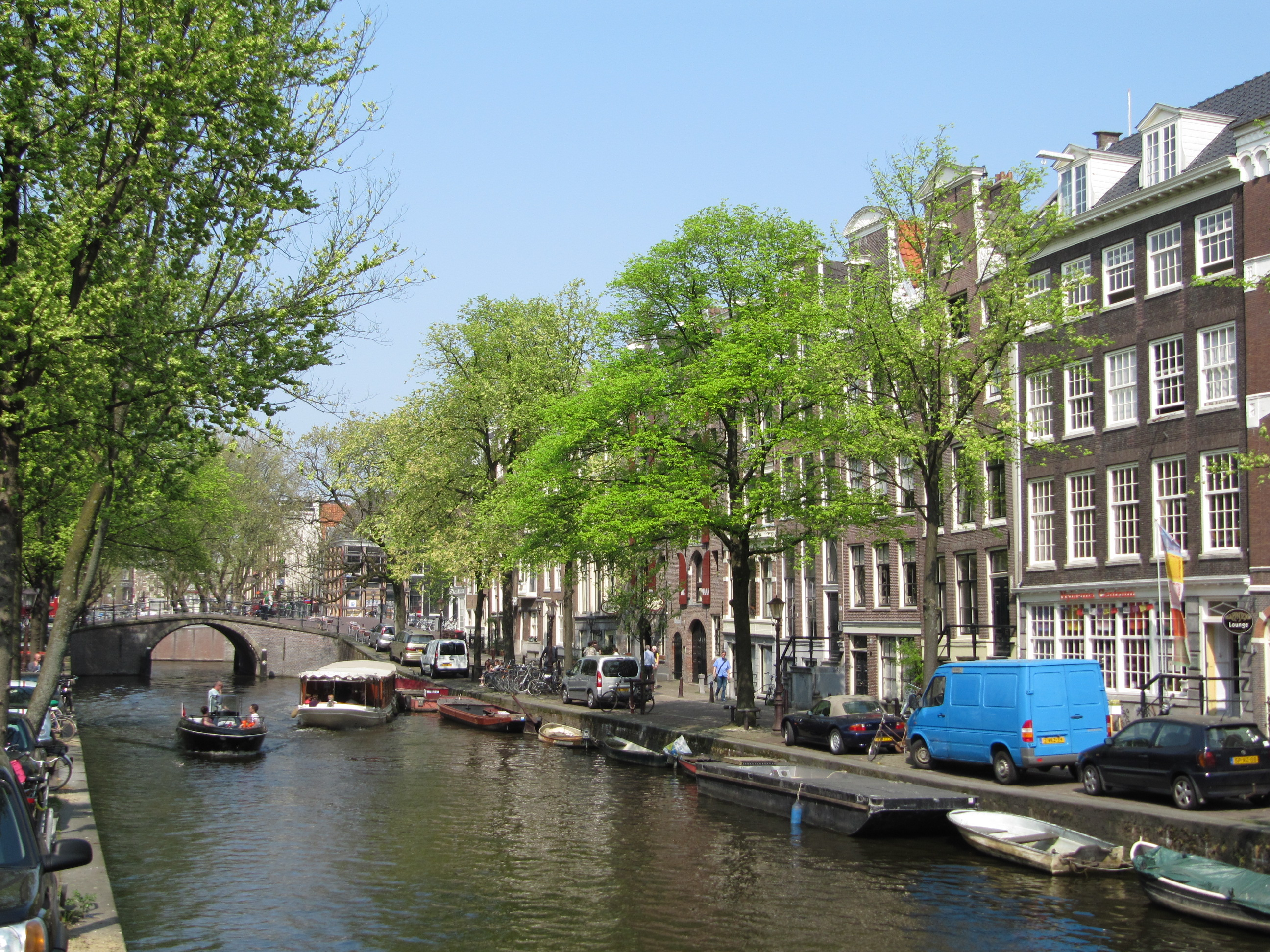 Reguliersgracht